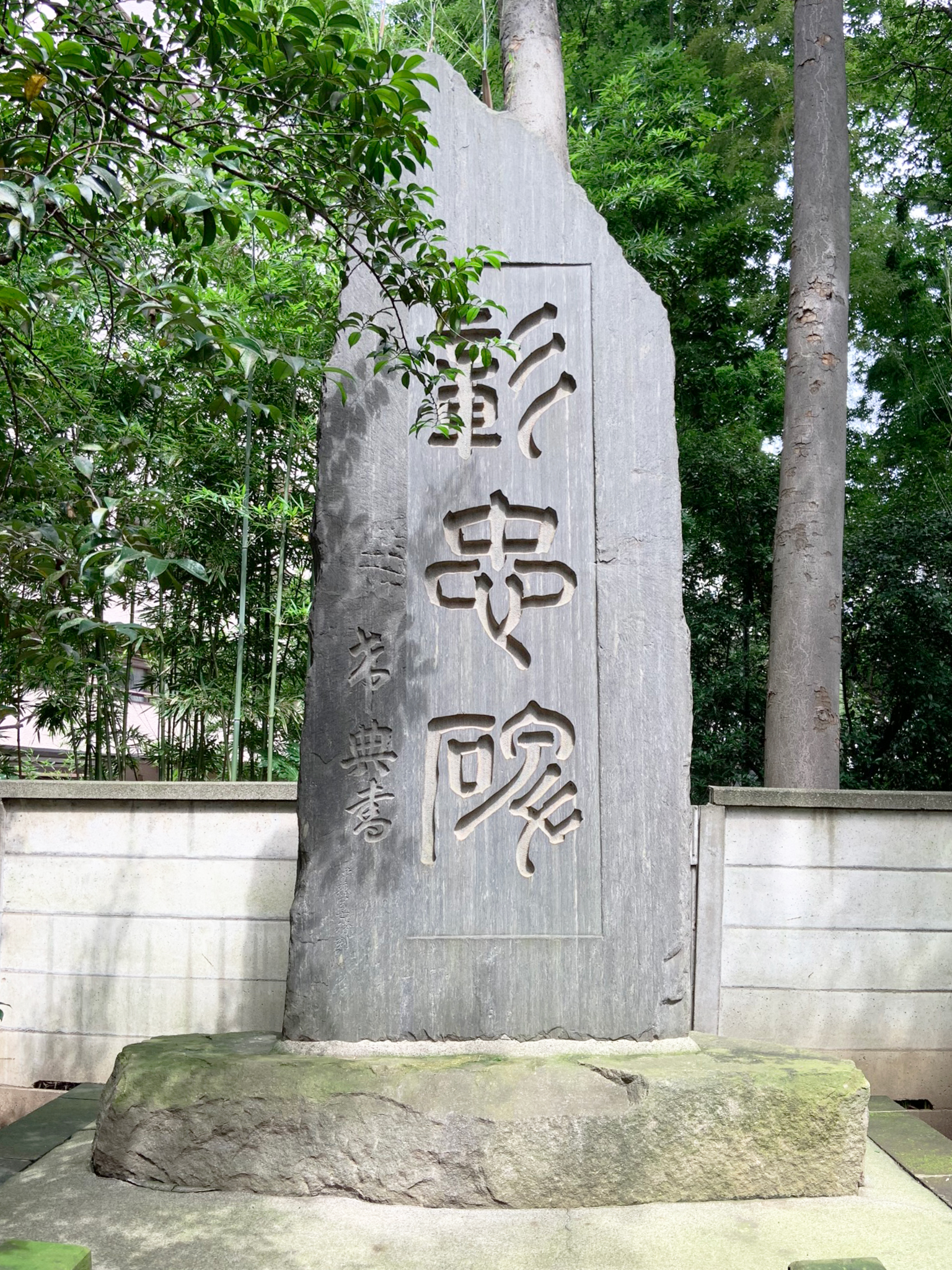 Sho Chu Hi, or a stone monument for honoring the loyalty of unknown soldiers, written by General NOGI Maresuke(1849-1912). This photo was taken at Ogikubu Hachiman Jinja shrine, Suginami City, Tokyo.